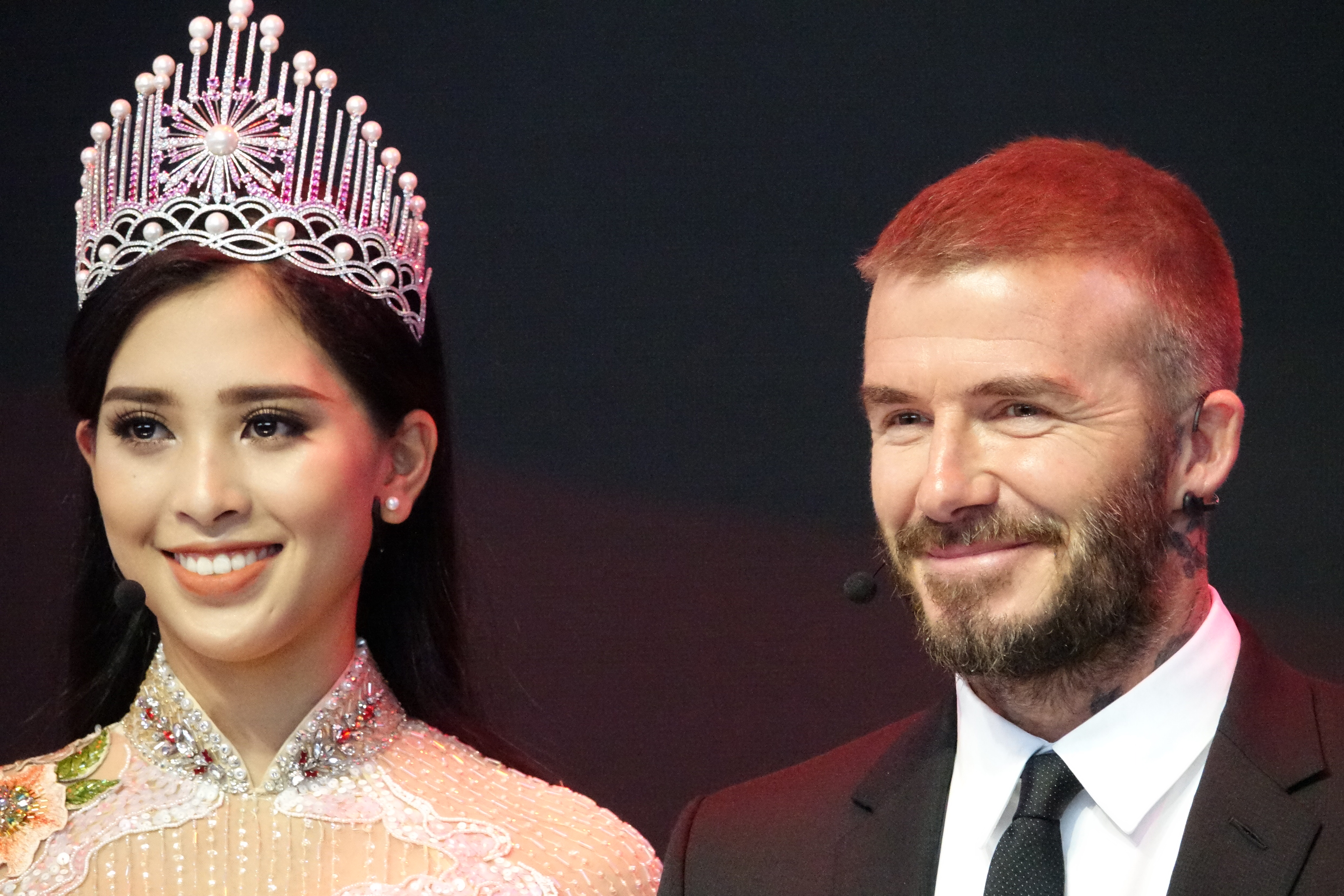 Vietnamese model Trần Tiểu Vy at left, Beckham at right